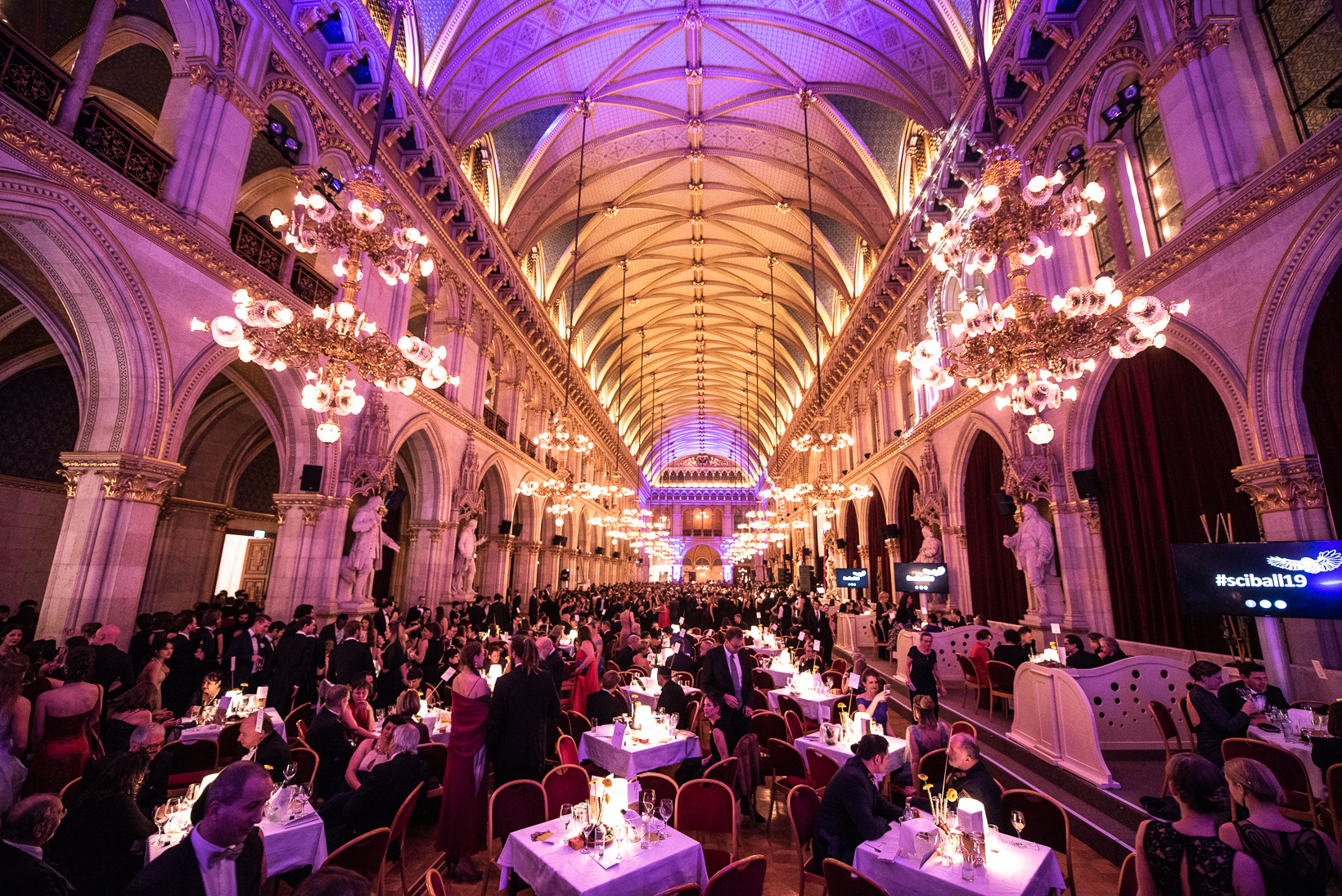 Grand ball room in Vienna's town hall during the Vienna Ball of Sciences 2019